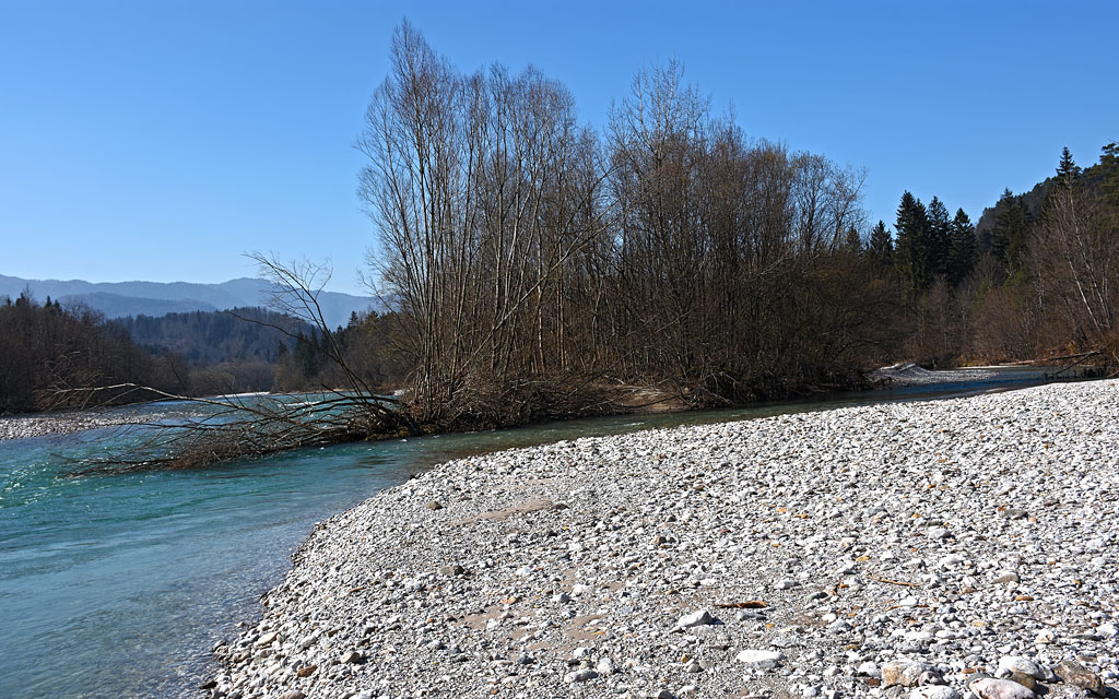 The inflow of Tržič Bistrica into Sava is a nice little area of wilderness.